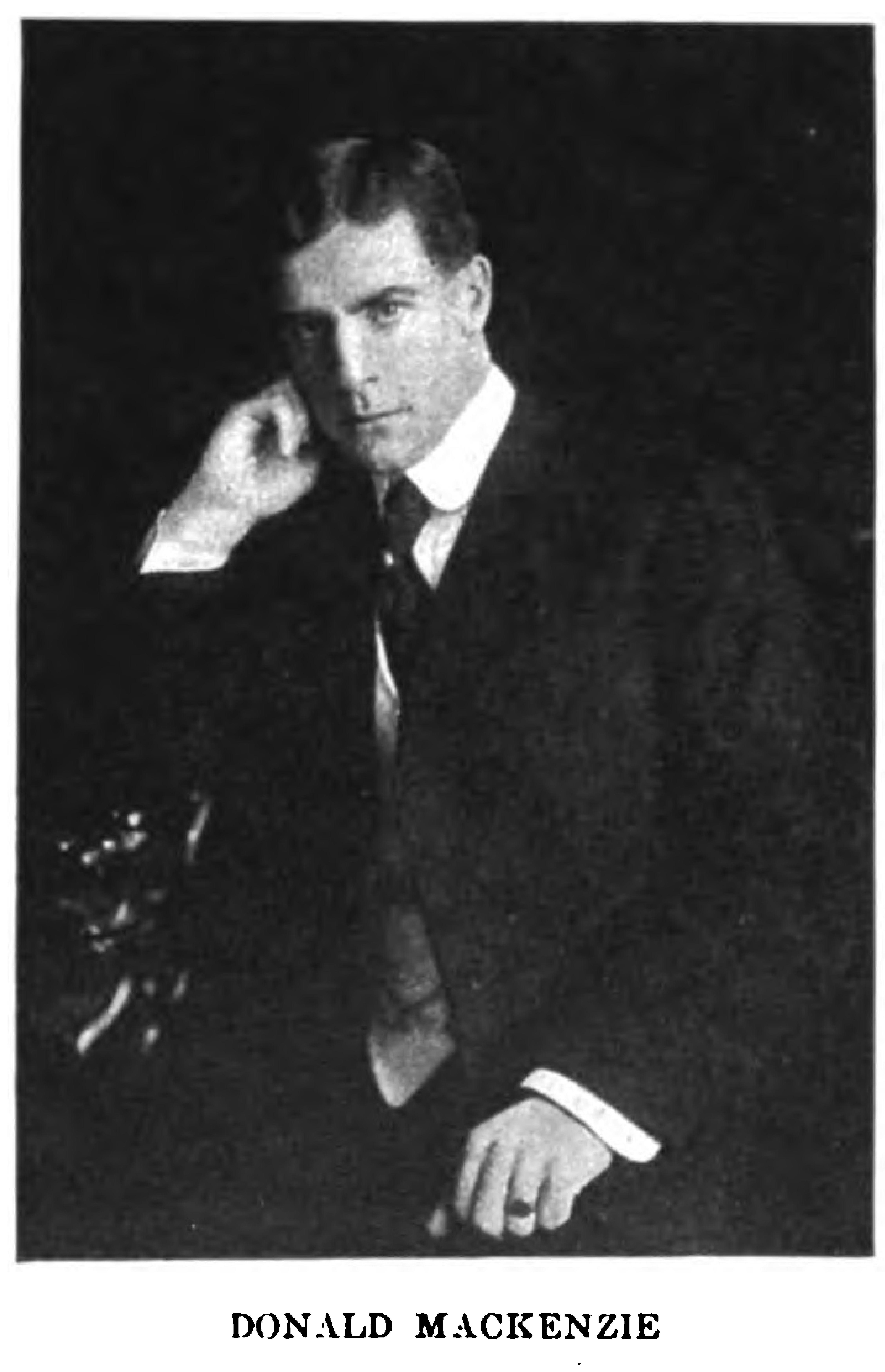 Donald MacKenzie (I) (1879 – 1972) Silent film actor and director.